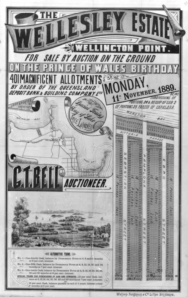 Advertising poster for land sale at Wellington Point, 1889 Sale of 401 lots along Victoria Parade, Sebastian Street, Ebro Street and Pamplone Streets in Wellington Point. The auctioneer was G. T. Bell and all attendees were offered a free lunch. Wellington Point is roughly 30 kms from Brisbane by road.